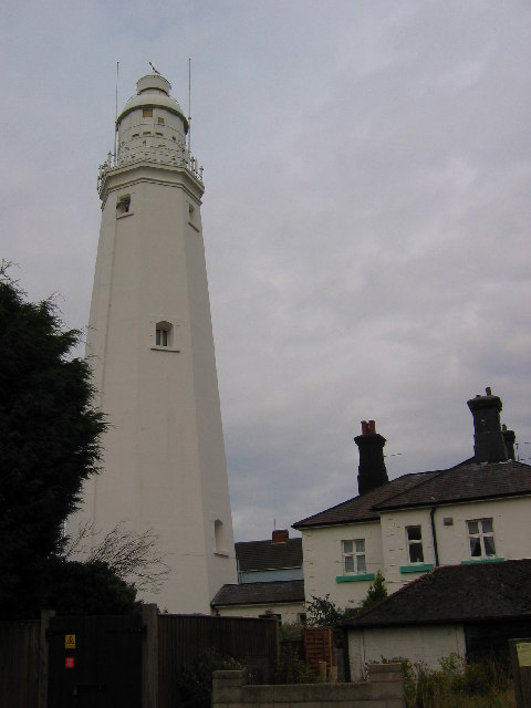 Withernsea Lighthouse, Withernsea, East Riding of Yorkshire, England.The lighthouse is right in the NE corner of the grid square. This view from the back of the lighthouse looking east. The light when it was in use would shine out over the town to the east coast.